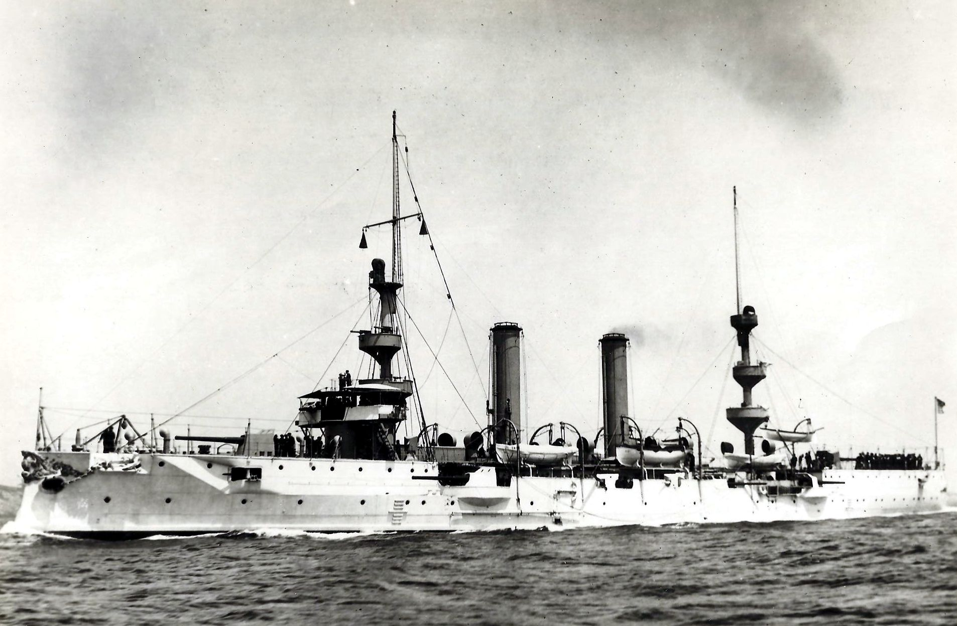 This is apparently the only online image of the protected cruiser Albany. I picked it up from , which asserts that it is a PD navy photo, although it's not on the Navy's own site. (It would be pre-1923 anyway, ship was decommissioned 1922.)